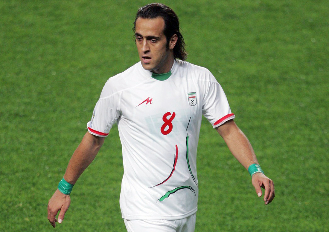 June 17, 2009- Ali karimi of Iran wears symbolic green wrist bands before the 2010 FIFA World Cup Asian Qualifiers match between Iran and South Korea at Seoul World Cup Stadium